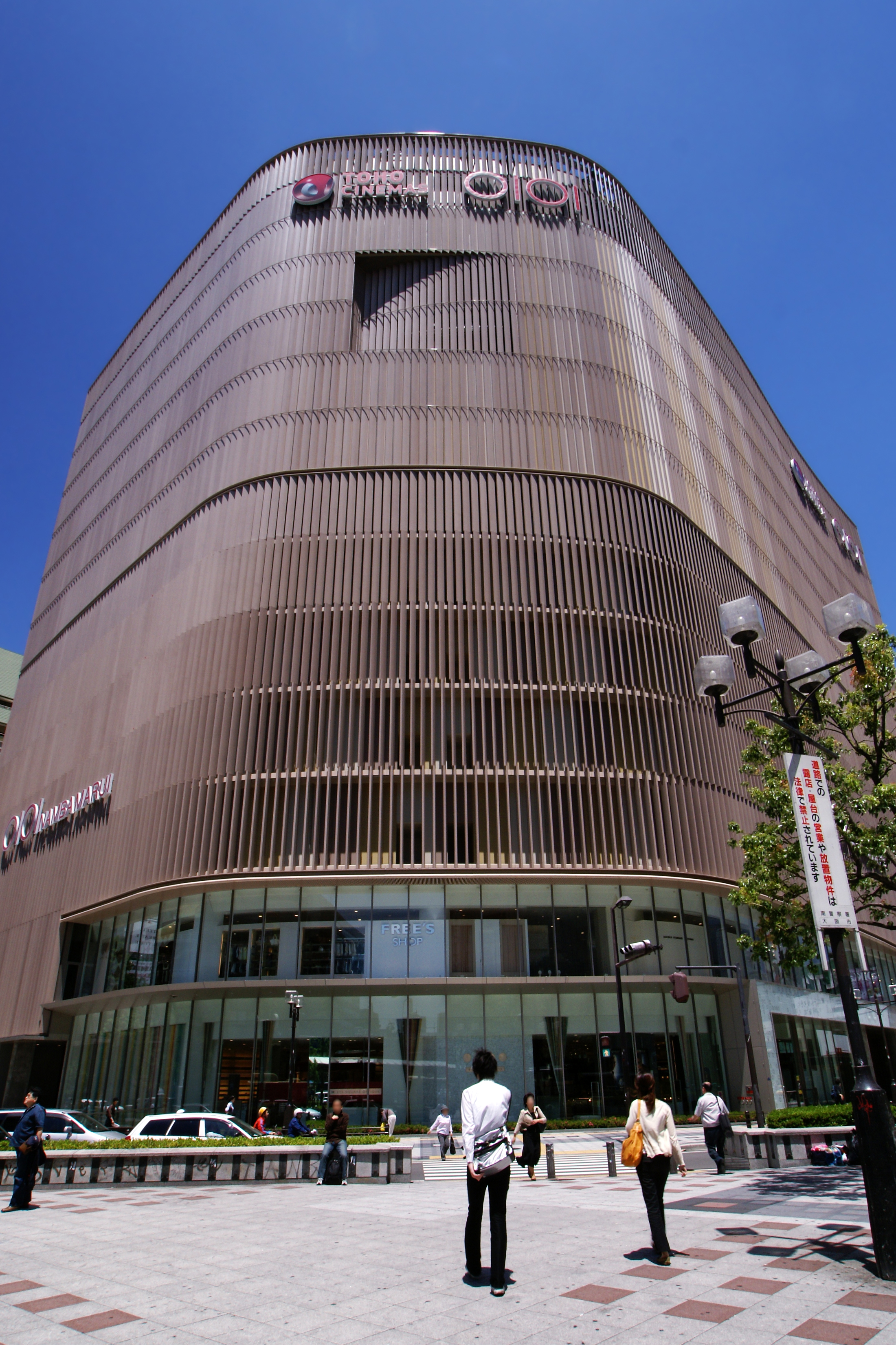 TOHO Nangai Building (NAMBA MARUI and TOHO Cinemas Namba) in Osaka, Osaka prefecture, Japan